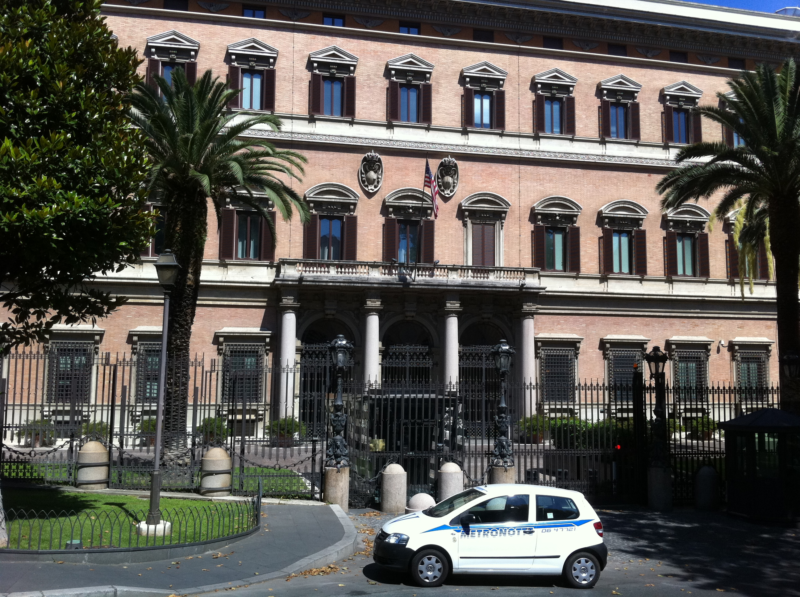 City tour